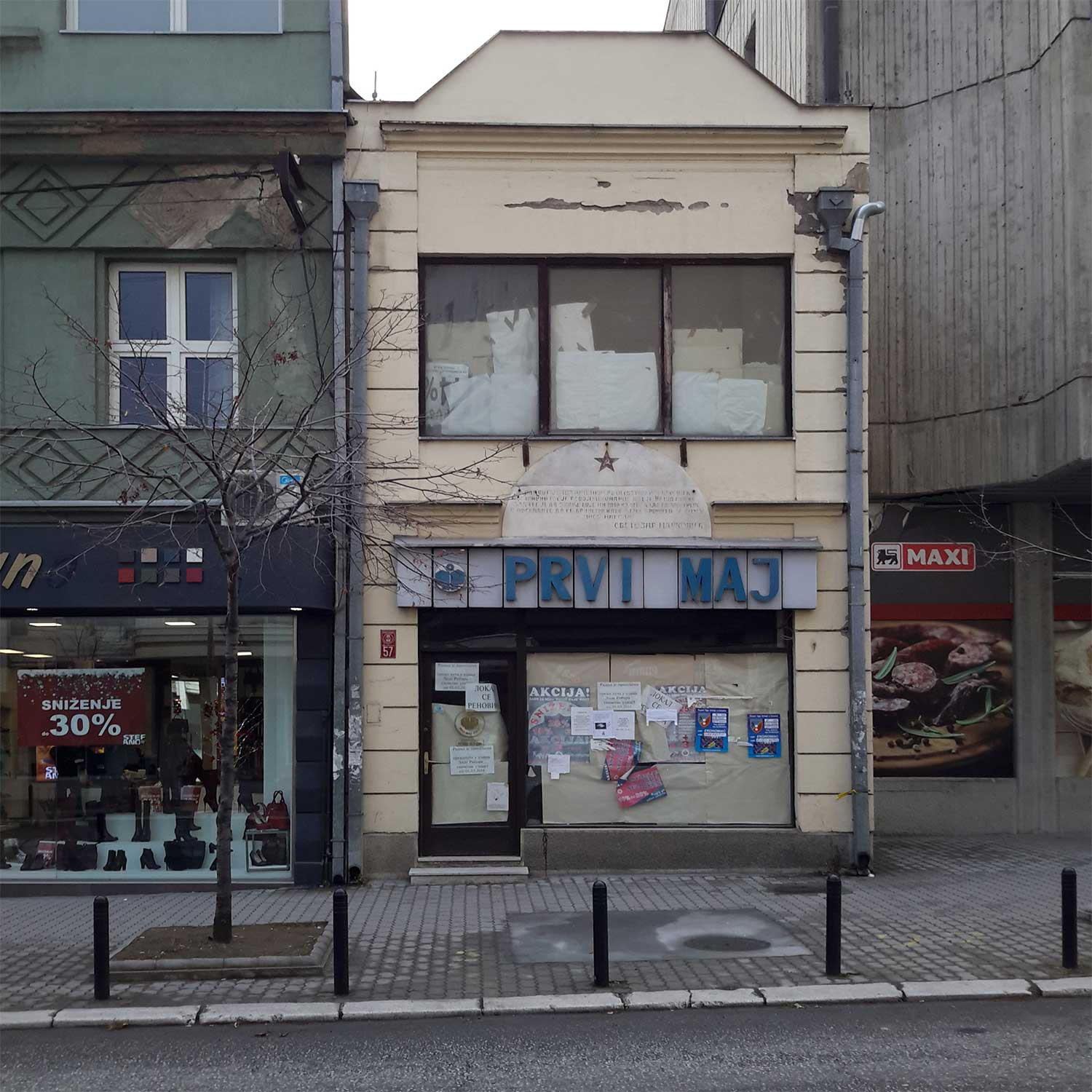 The building in street Maršala Tita, number 121 in Kragujevac